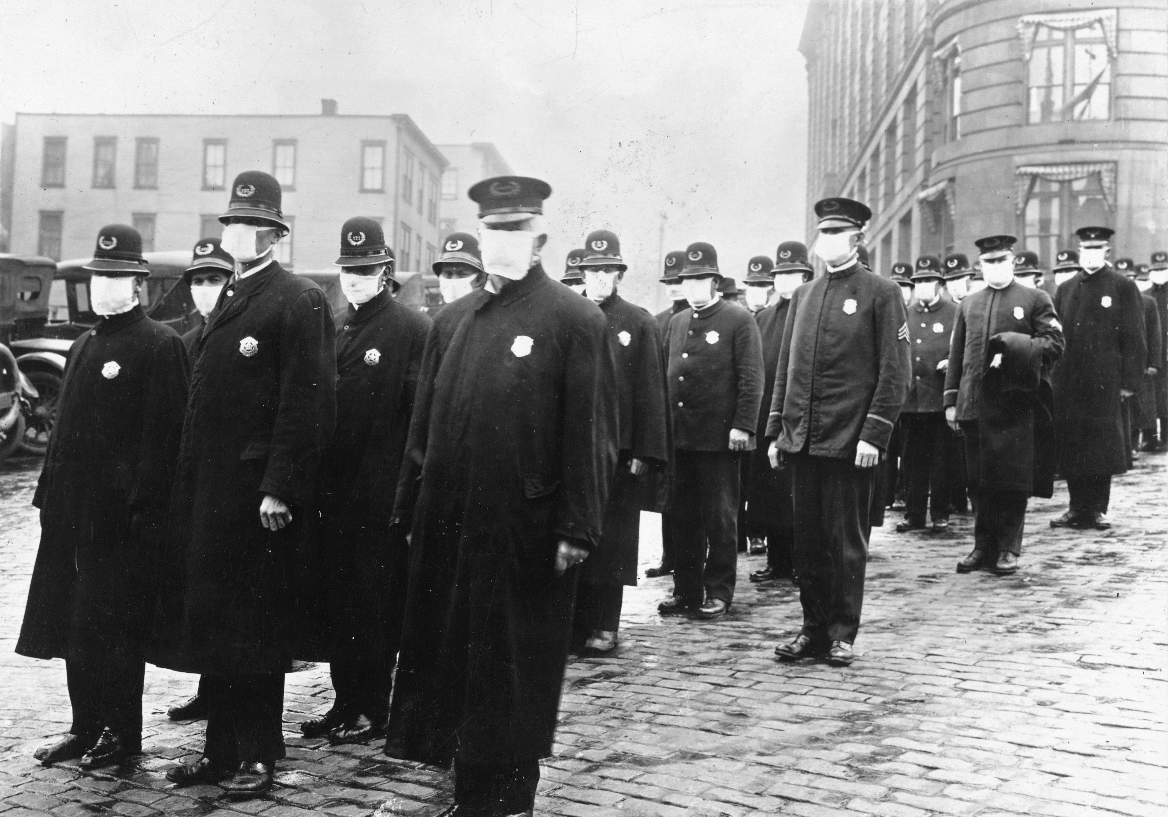 Policemen in Seattle wearing masks made by the Red Cross, during the influenza epidemic. December 1918.